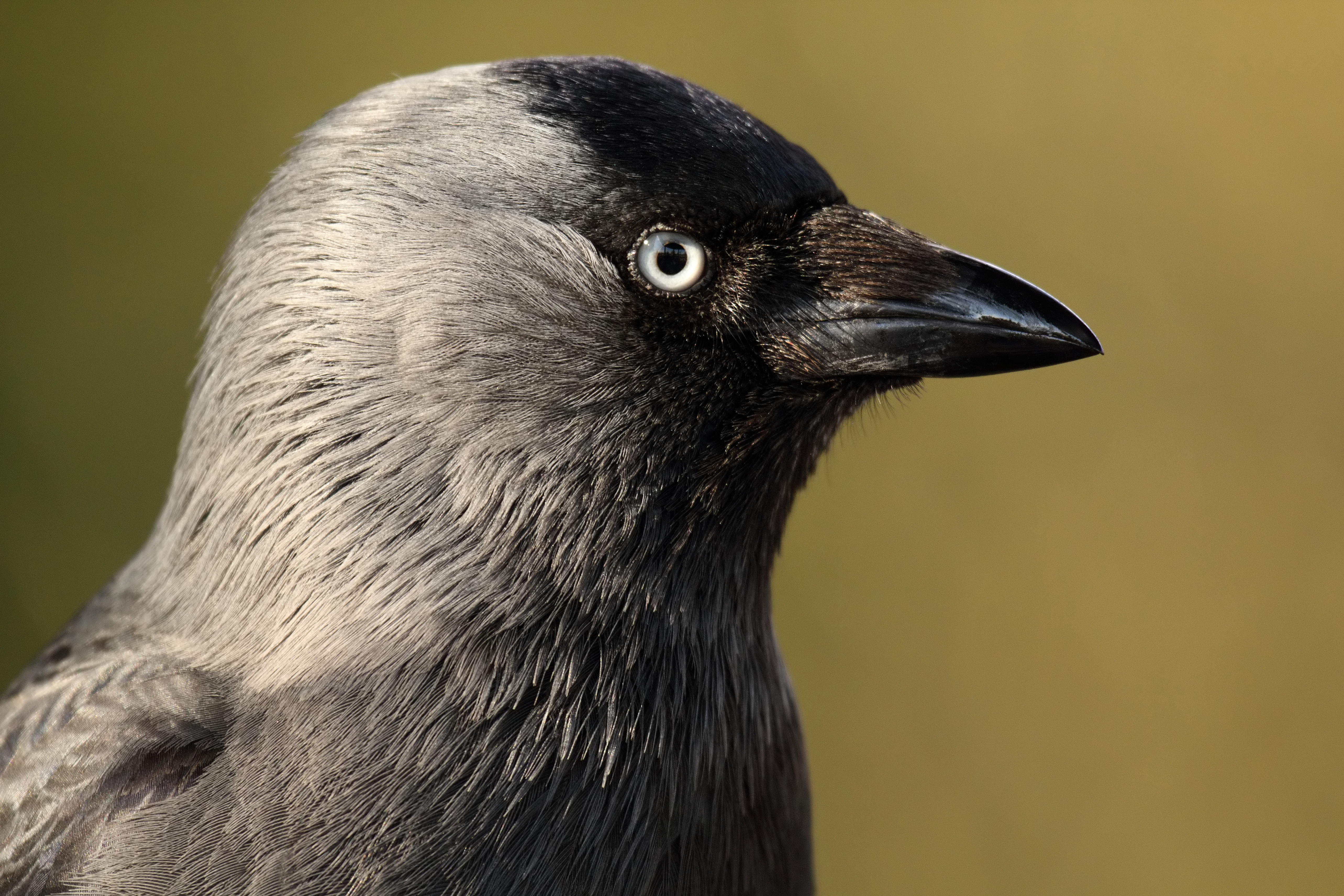 Western Jackdaw (Corvus monedula spermologus) in Oxford, United Kingdom.